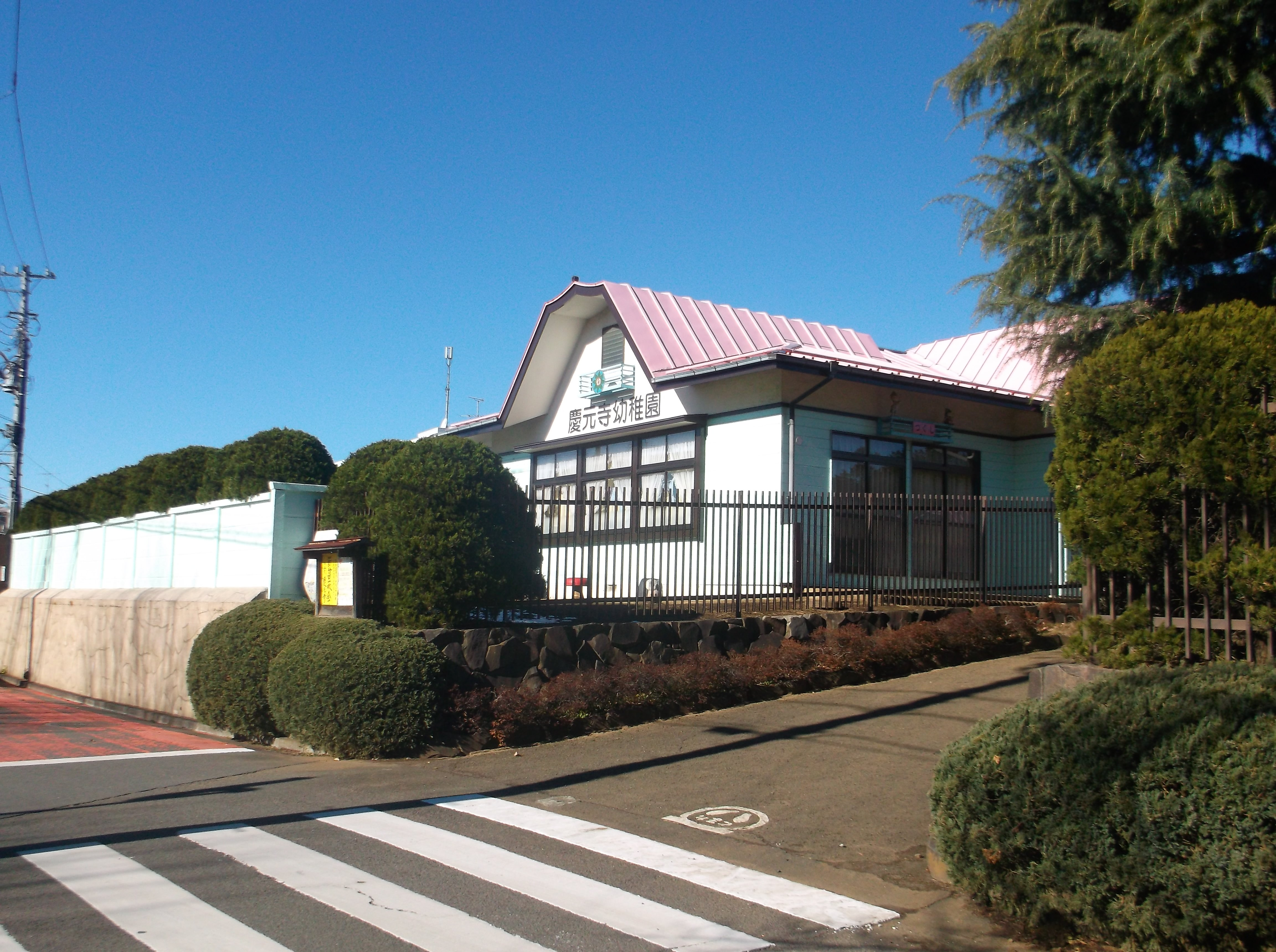 A photo of Keigenji Kindergarten,Kitami,Setagaya-ku,Tokyo.